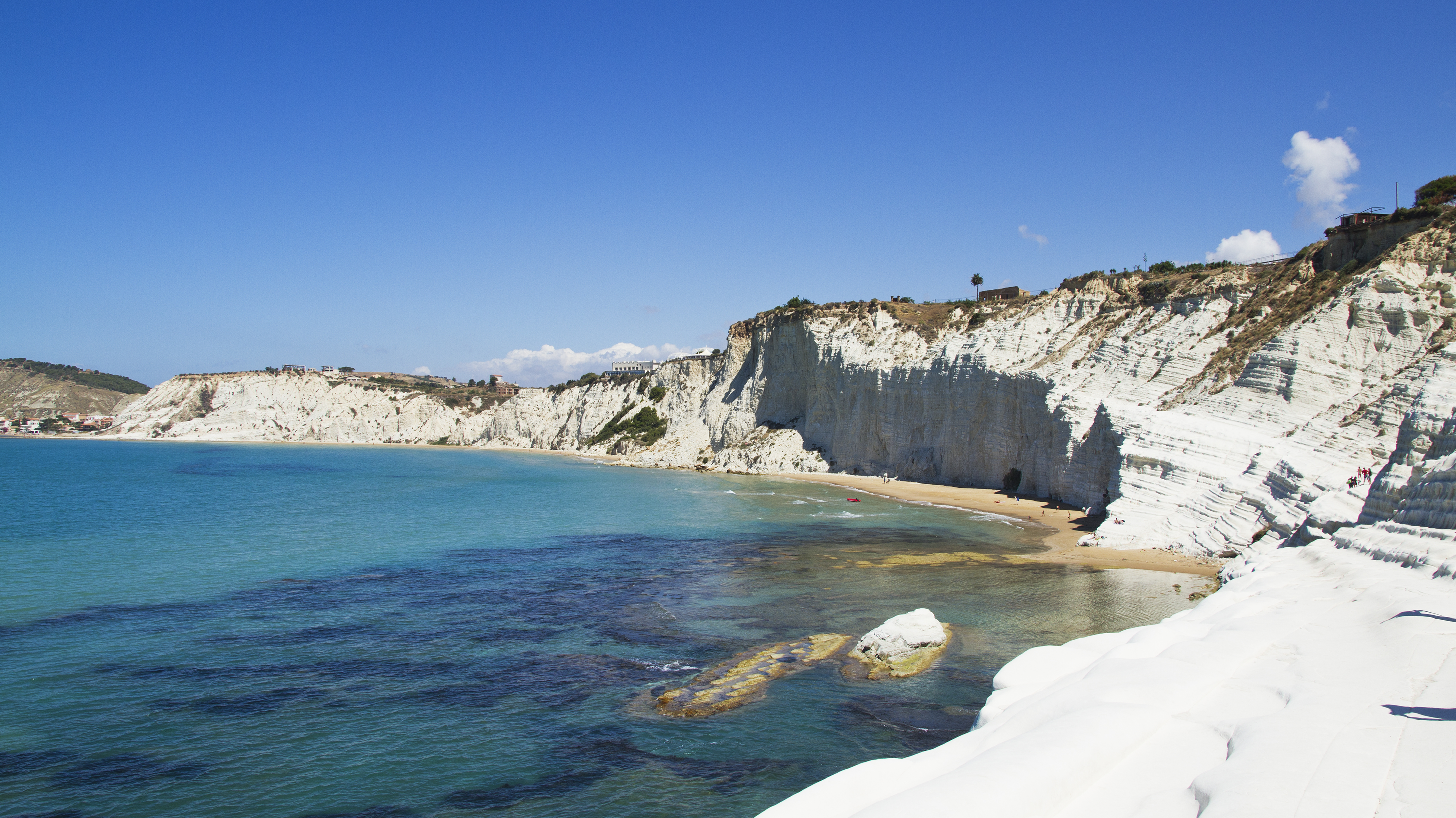 92010 Realmonte, Province of Agrigento, Italy